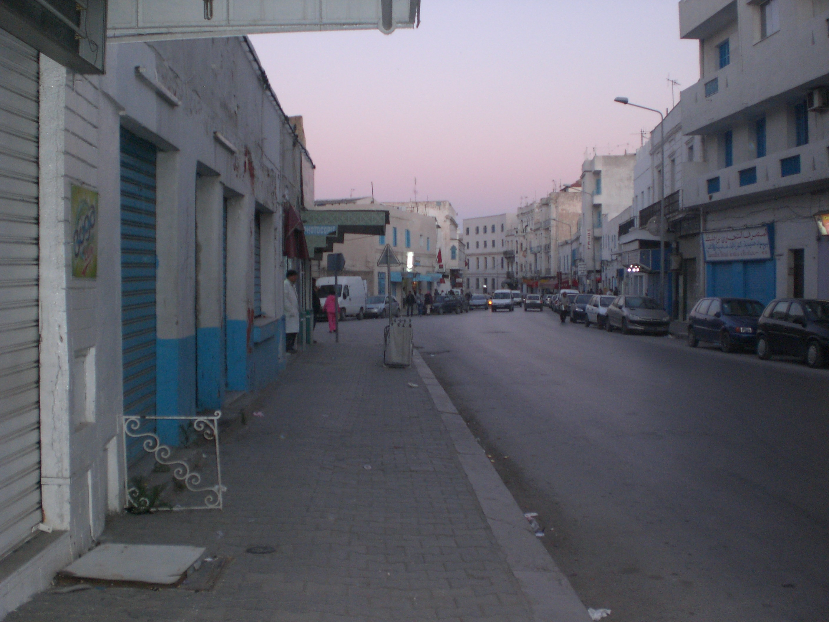 An avenue in Tunis called Bab Jedid